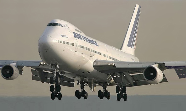 An Air France Boeing 747-200